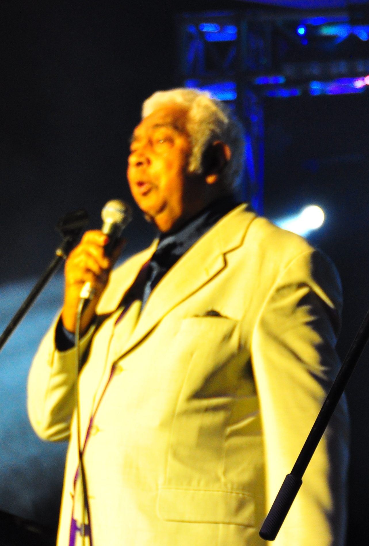 Jimmy and guy from the Church